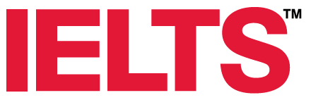 IELTS logo